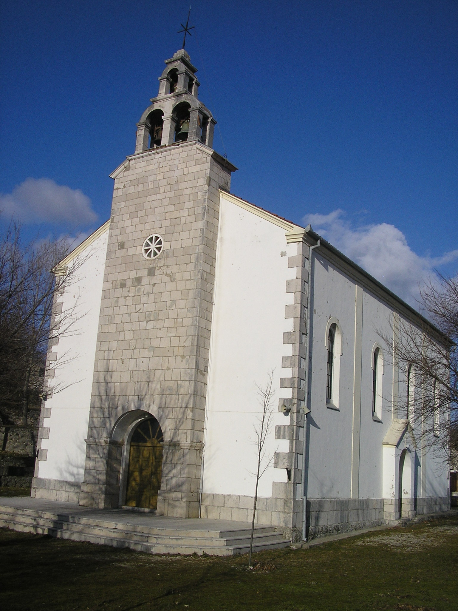 Immaculate Conception Church